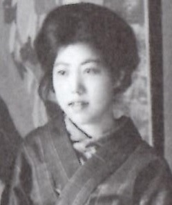 Japanese style female painter, Kitani Chigusa（1895-1947）